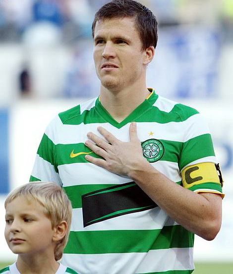 Gary Caldwell (born 12 April 1982 in Stirling) is a Scottish footballer.